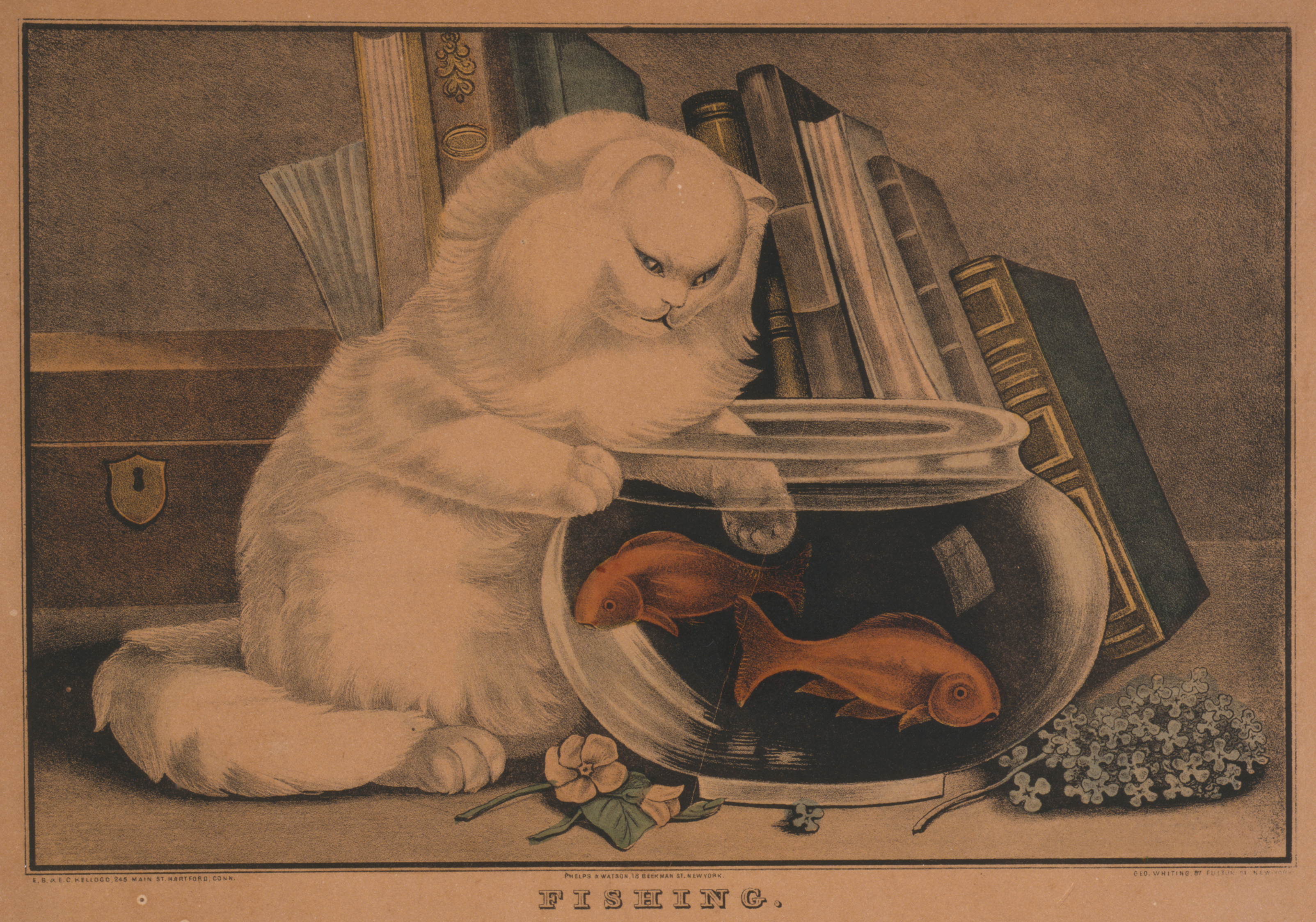 "Fishing": "Print shows a cat with a paw in a fish bowl." hand colored lithograph